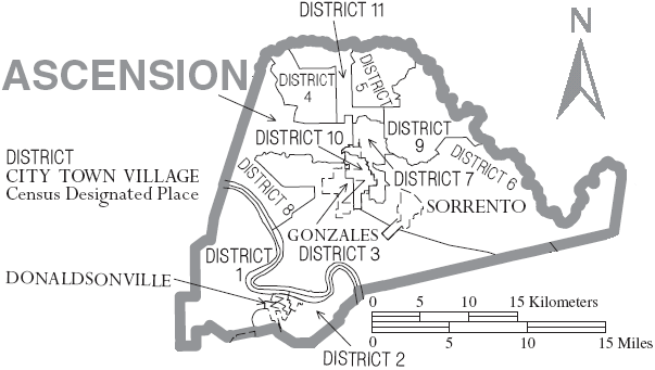 Map of Ascension Parish, Louisiana, United States with municipal and district boundaries